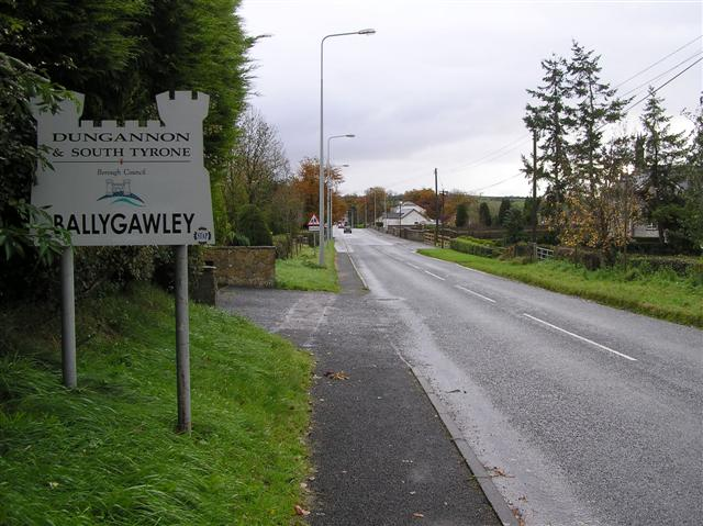 Approaching Ballygawley Heading into the town by Church Road